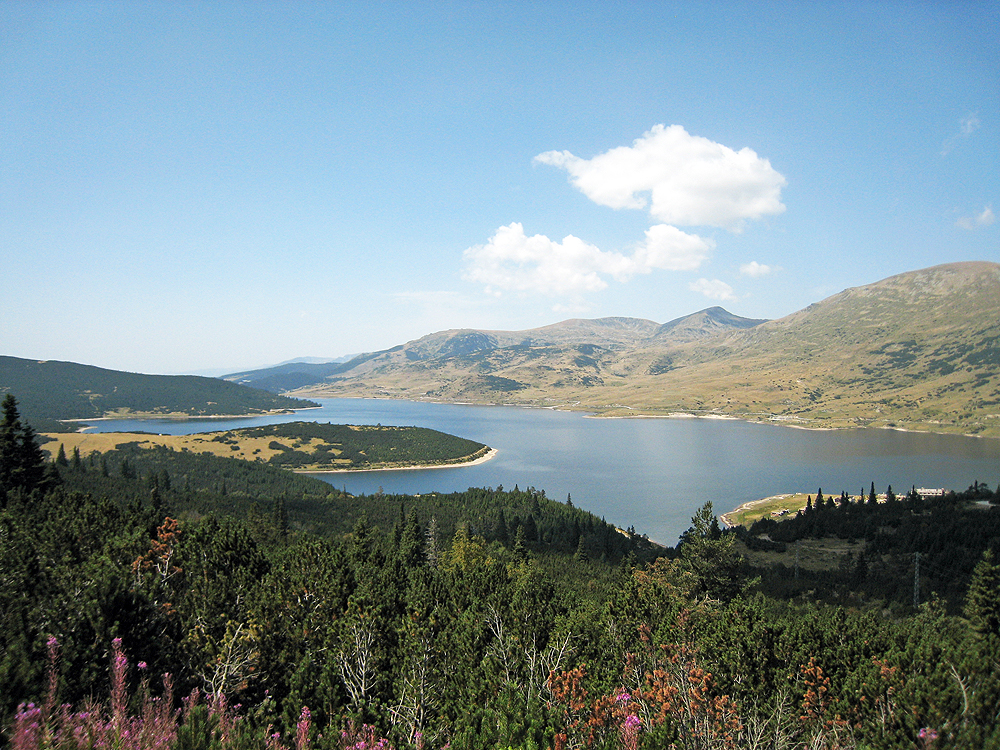 Belmeken Dam Reservoir Bulgaria